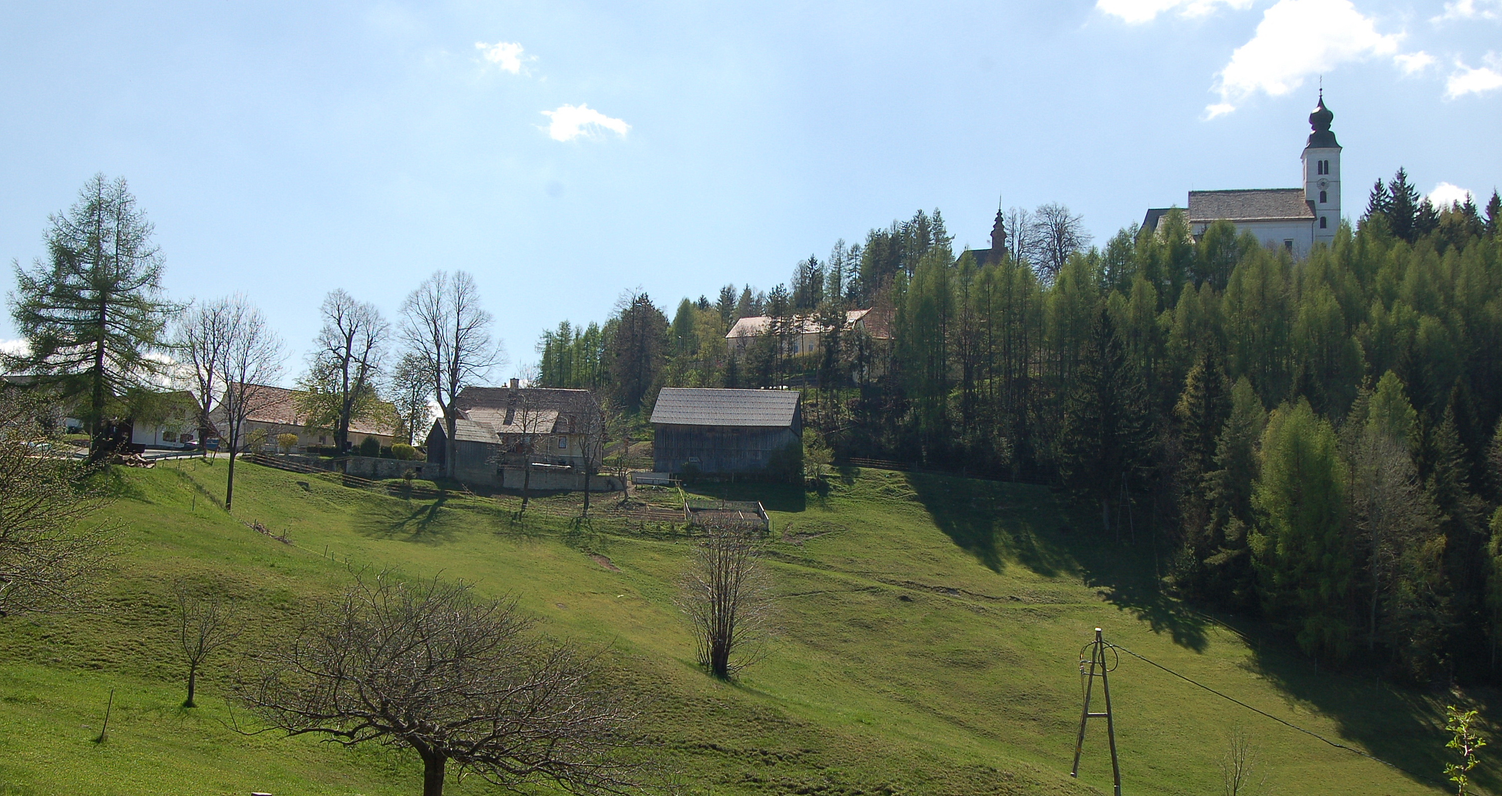 Sveti Duh na Ostrem vrhu church (i.e. Holy Spirit church at Easter mountain) in Selnica ob Dravi municipality, Slovenia